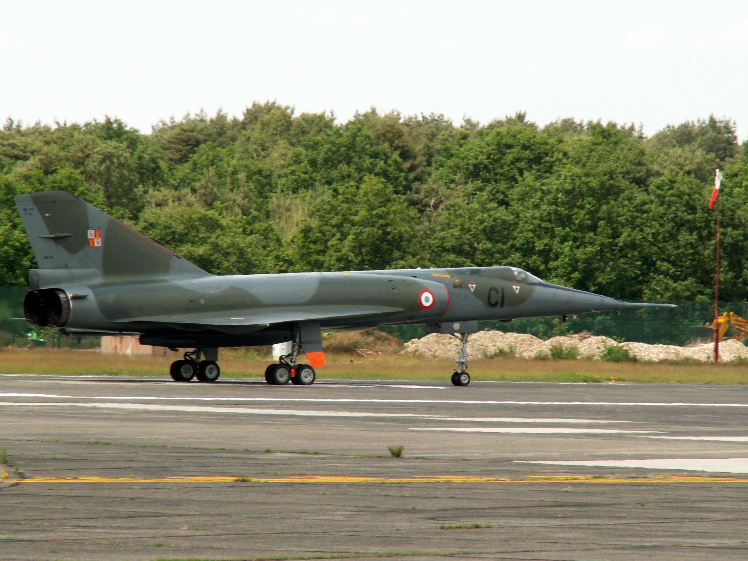 Photographed at a Spottersday 2005 at Kleine Brogel.